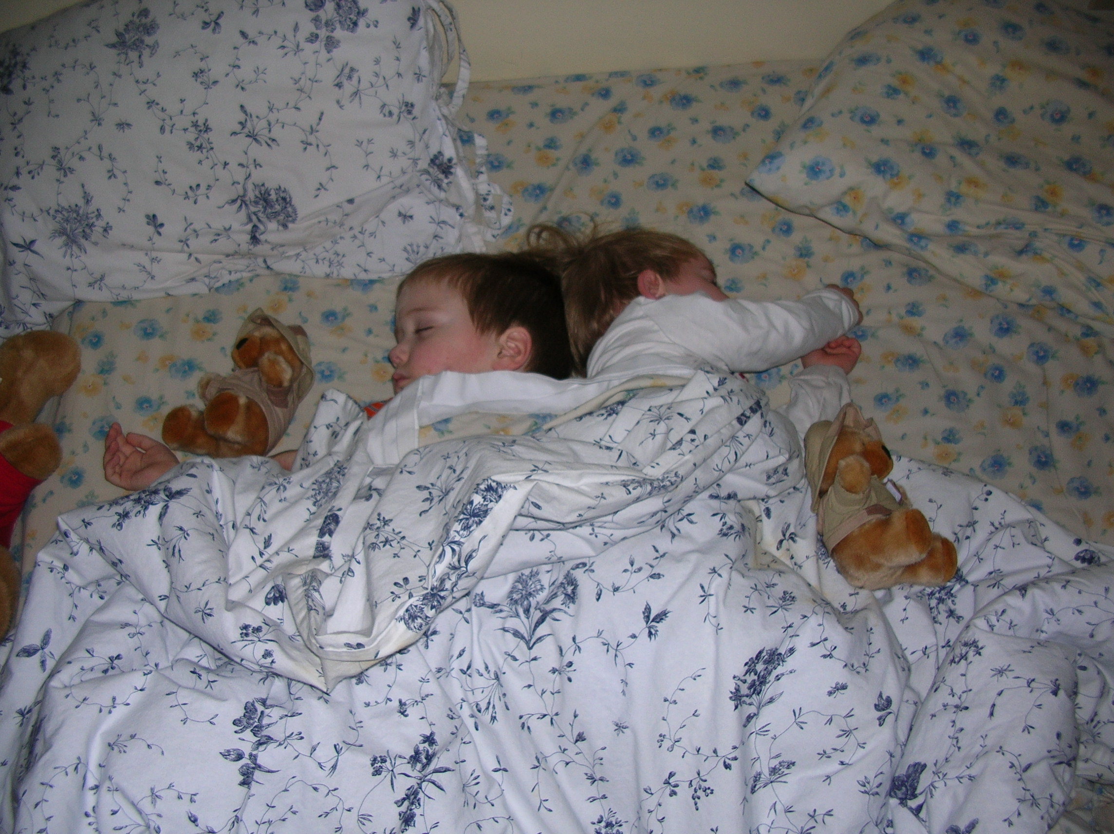 They're asleep!